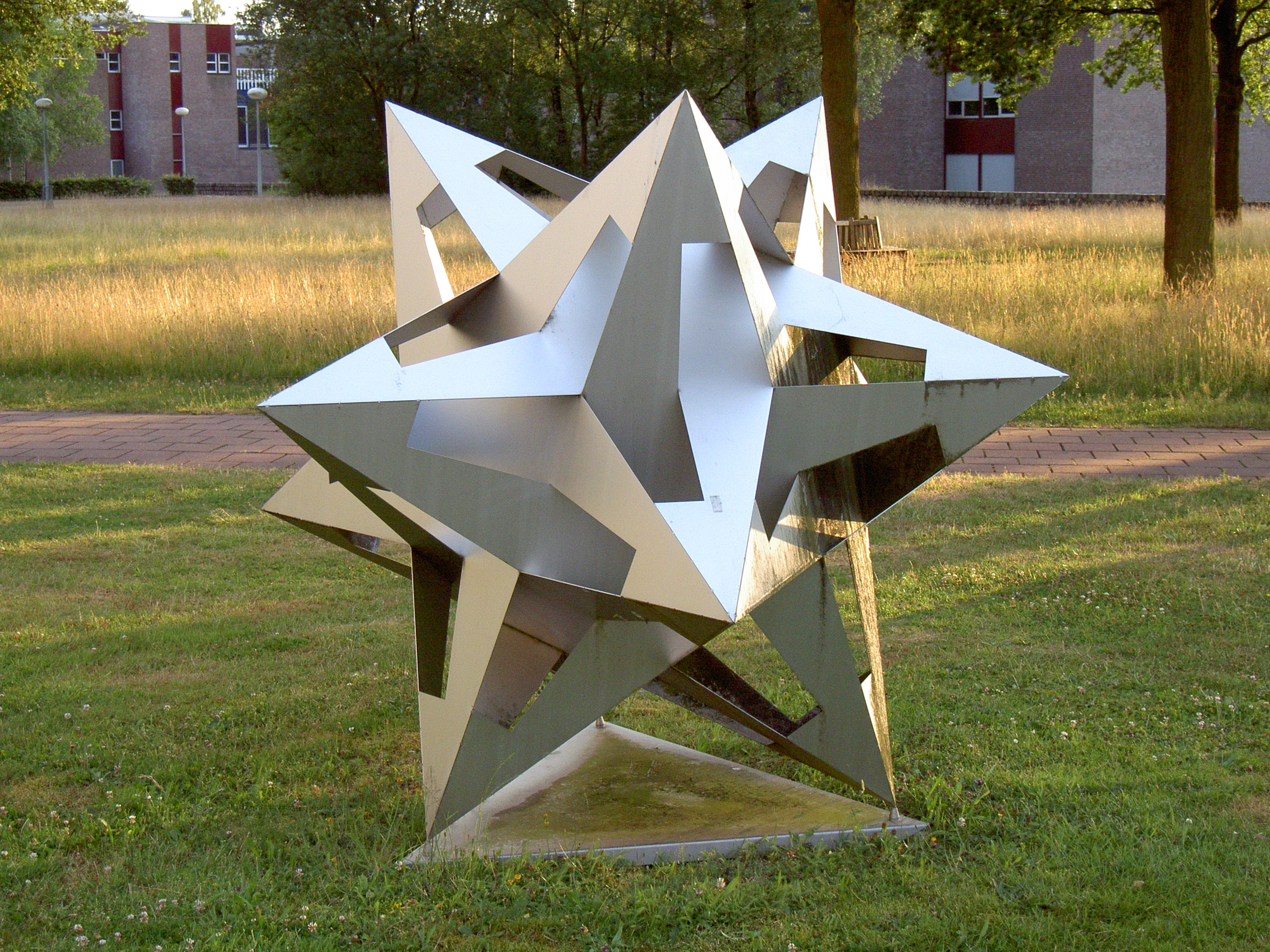 A sculpture after a drawing by Escher, it is a stellated dodecahedron. It can be found on the campus of Twente University in front of the "Mesa+" building.